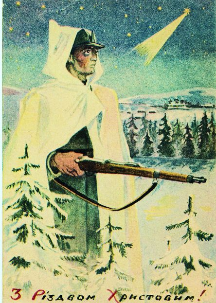 Christmas card made and distributed by the Ukrainian Insurgent Army (Ukrainian nationalist partisans in WWII).